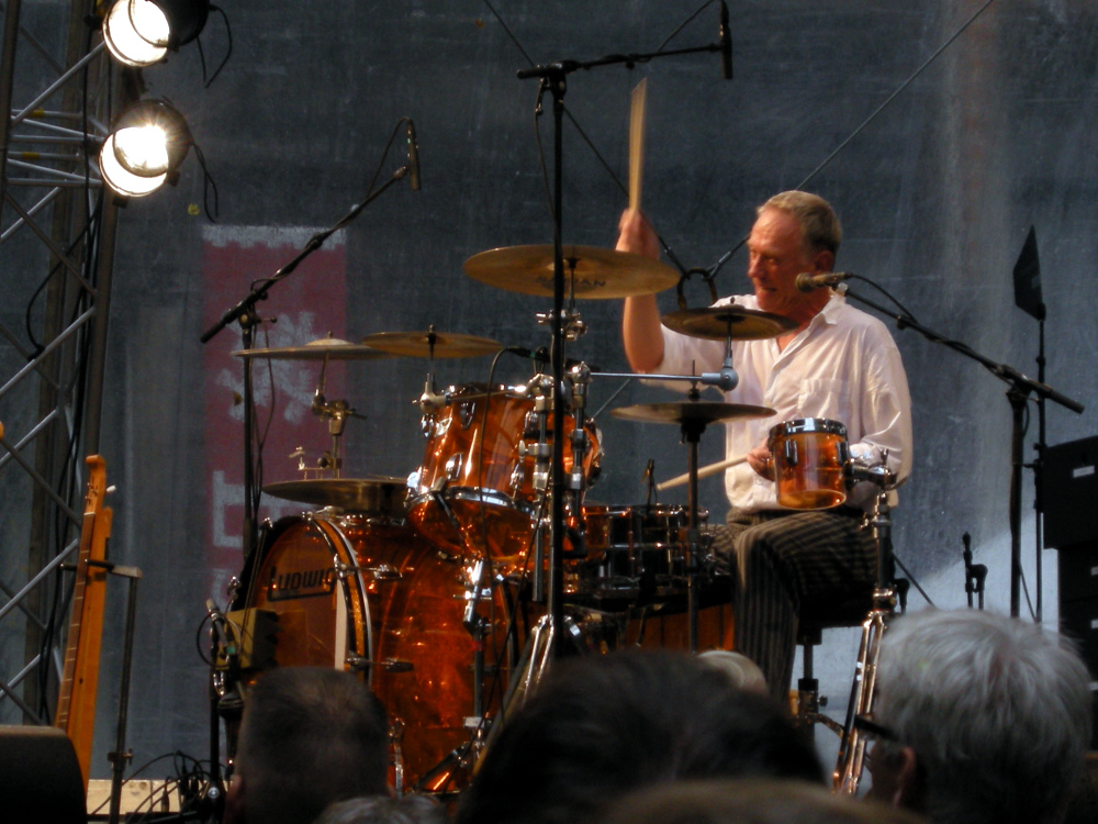 Rob Kloet of the dutch Band Nits at the Haags UIT Festival 2008